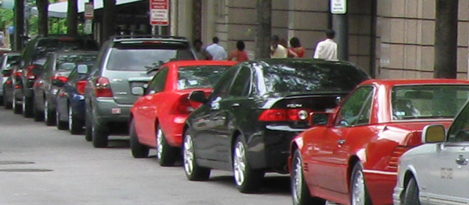 Cars parallel parked along K Street in Washington, D.C., USA.